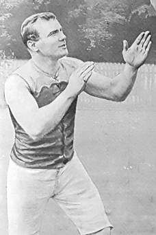 Photograph of Norm Clark, Fred Jinks, Rod McGregor in 1907